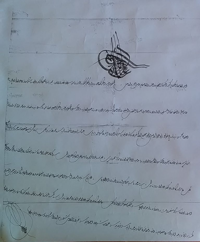 Ferman issued by Sultan Abdulmedzhid in 1858 for the construction of a Catholic church in the village of Komatevo, Plovdiv